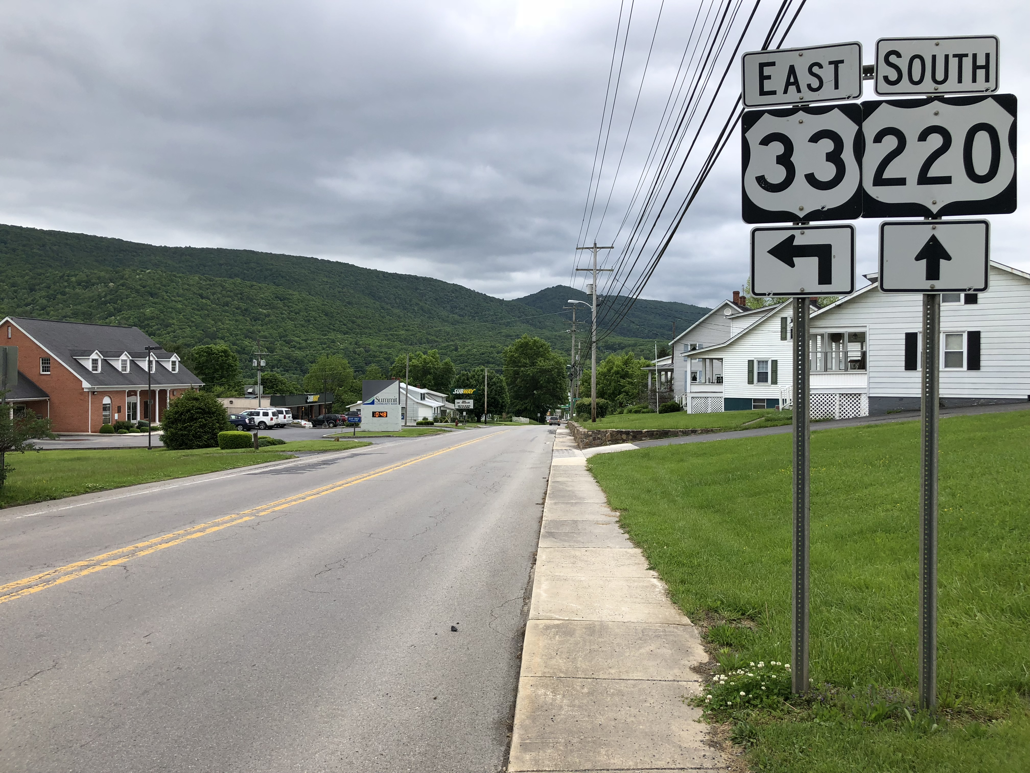 View east along U.S. Route 33 and south along U.S. Route 220 (Main Street) at Crigler Lane in Franklin, Pendleton County, West Virginia